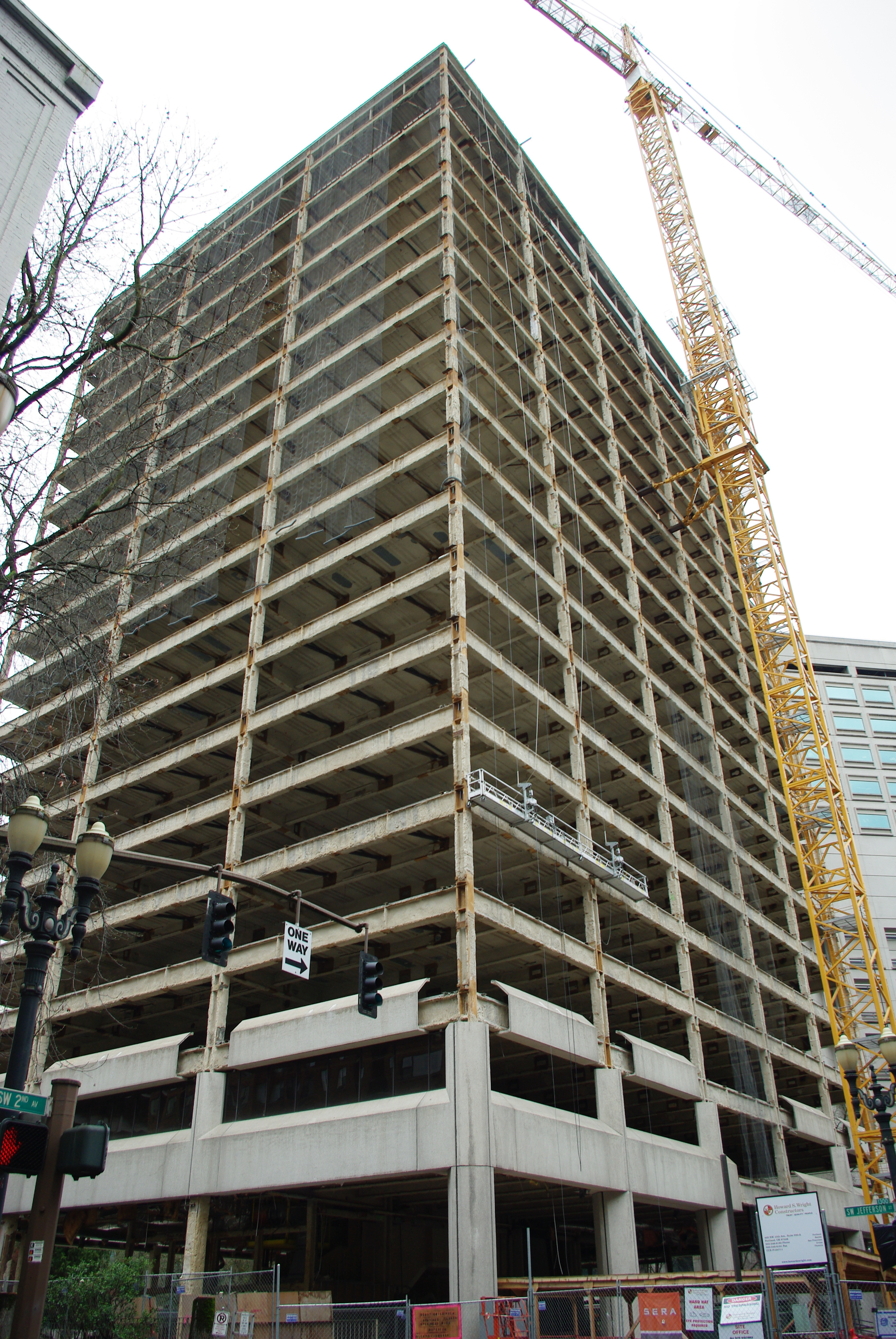 The Edith Green - Wendall Wyatt Federal Building in Portland, Oregon, undersoing renovation in April 2011.